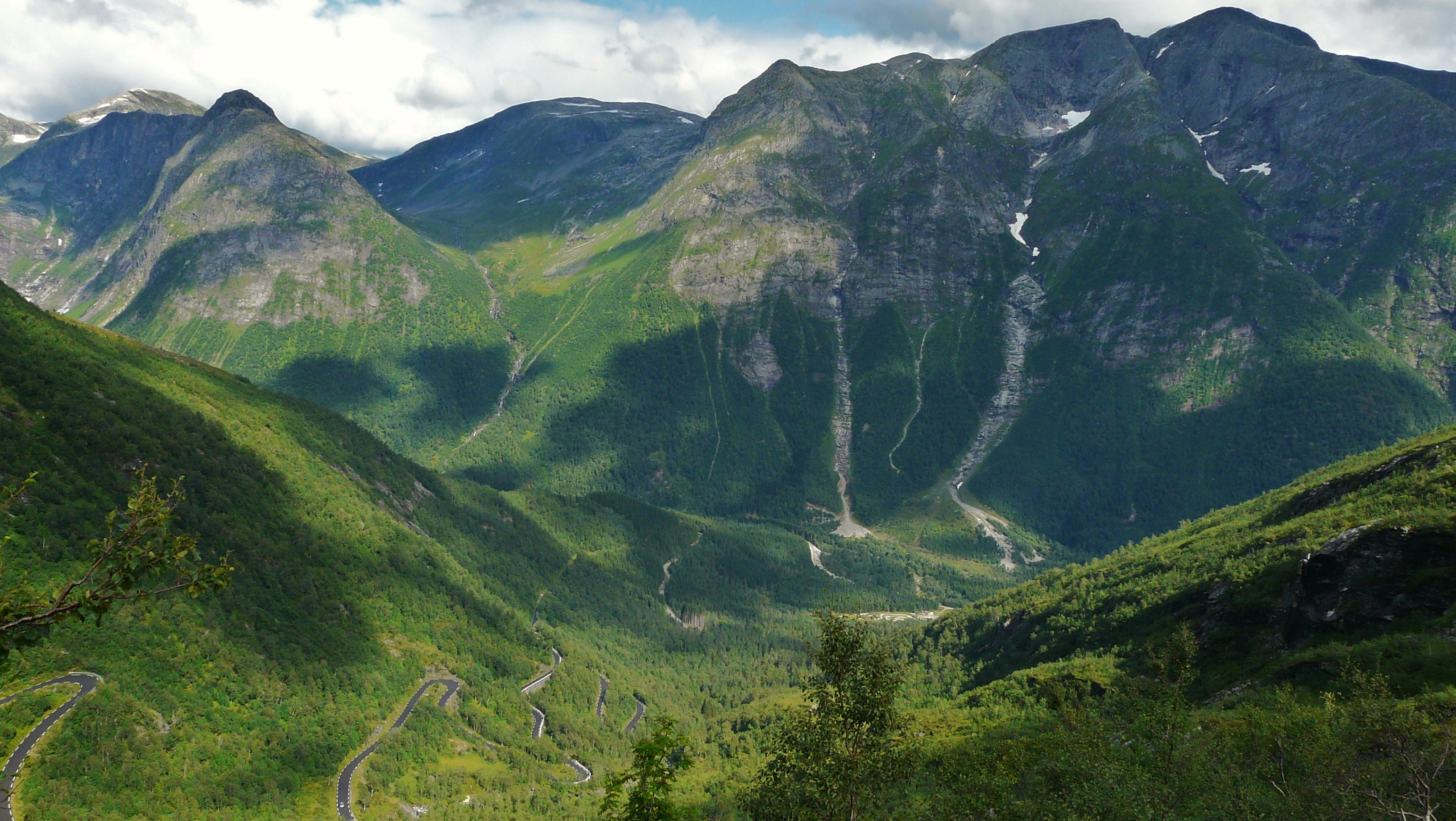 A view to Vetlefjorddalen and Bårddalen from a lookout spot at the top of the serpentine Riksvei 13 road in 2008 August.